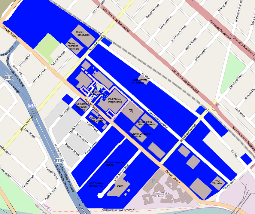 Grand Central Creative Campus in Glendale, California. All plot owned by Walt Disney Company are in blue .